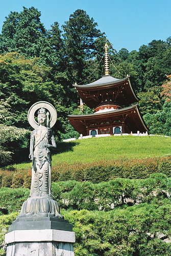 Photo taken by me at Katsuo-ji in October 2006. North of Osaka, Japan. Kannon and pagoda, seen on approach to the main temple building. W. R. Hogue